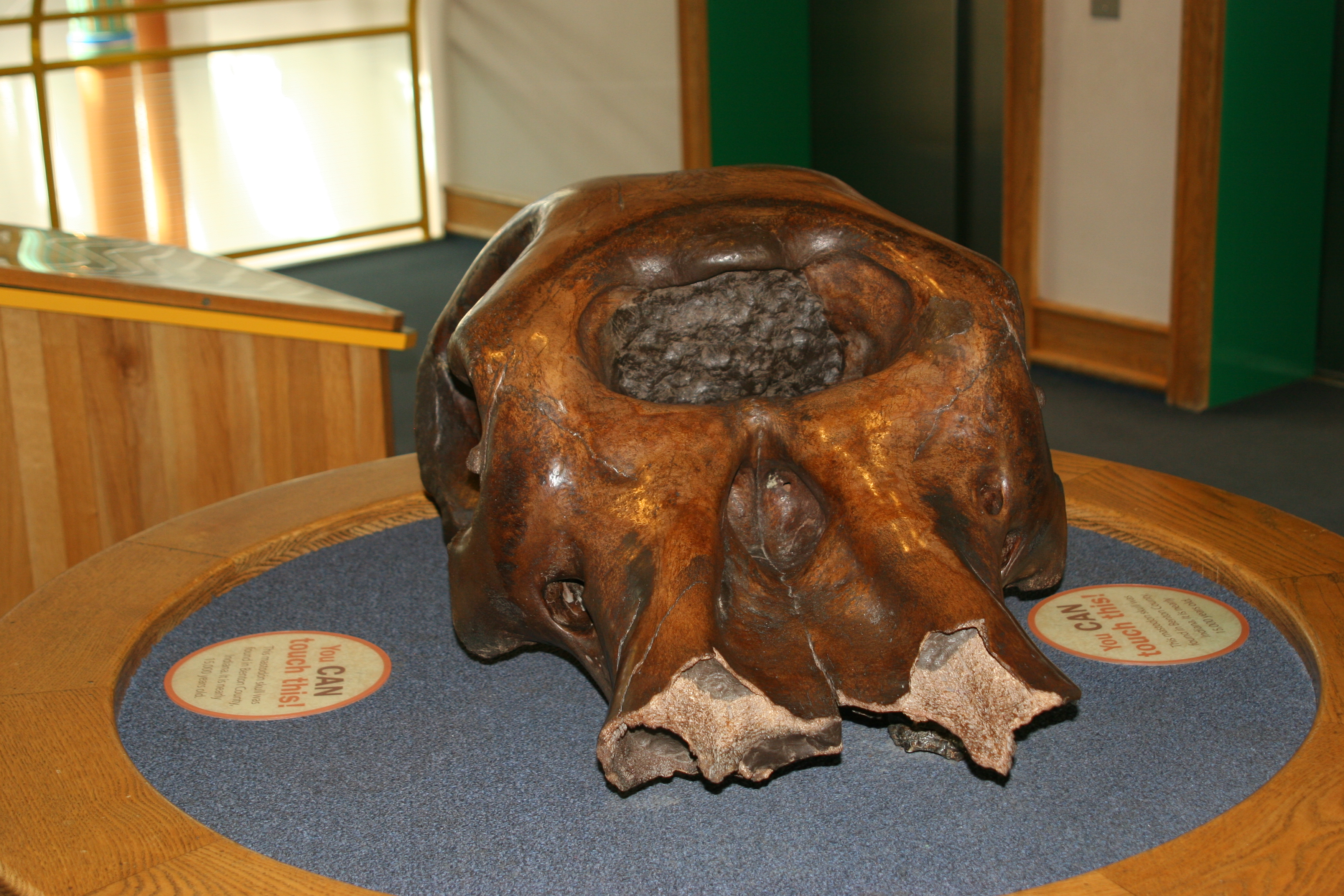 Mastodon skull on display at The Children's Museum of Indianapolis.